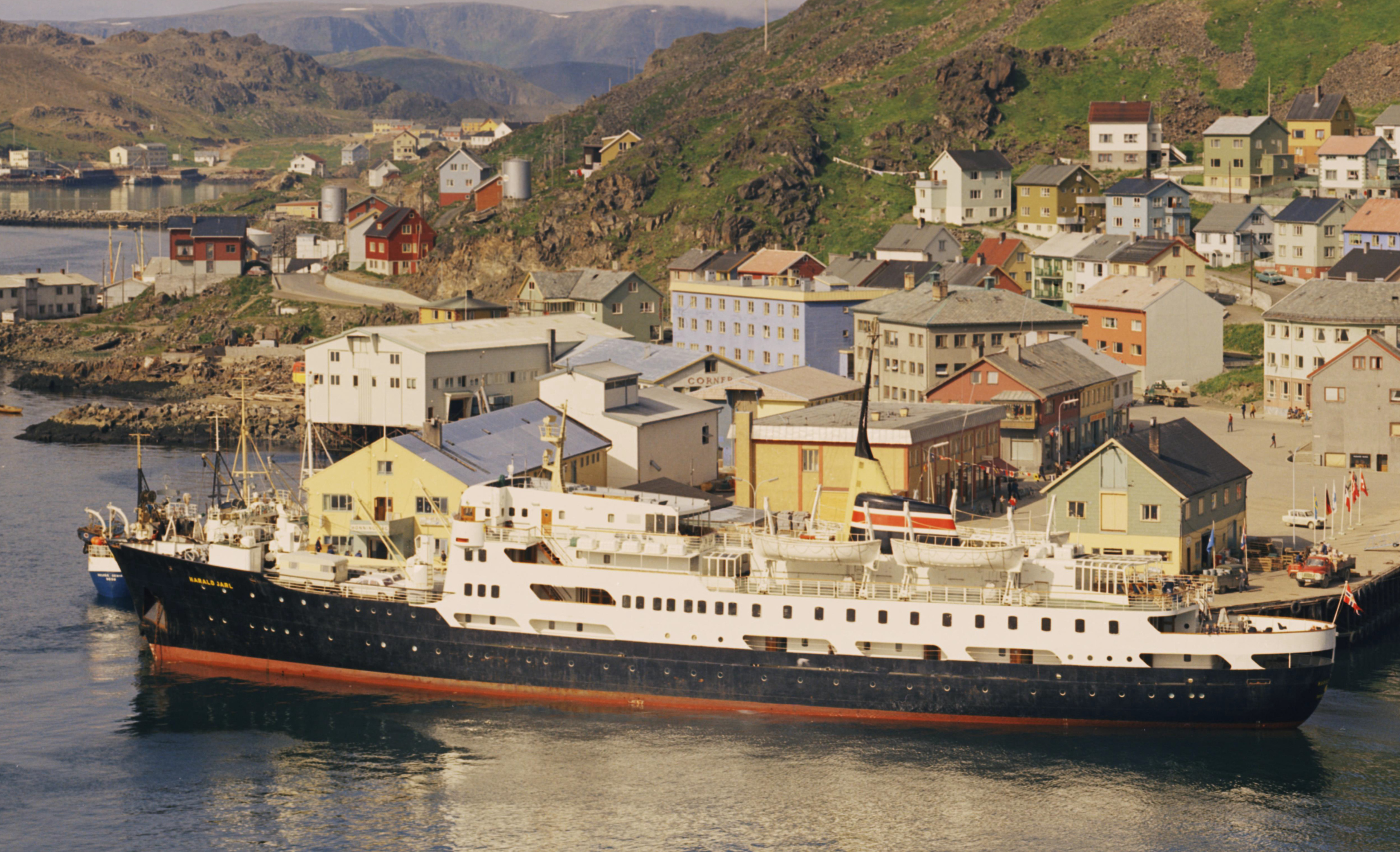 Norwegian vessel MS Harald Jarl built in 1960.